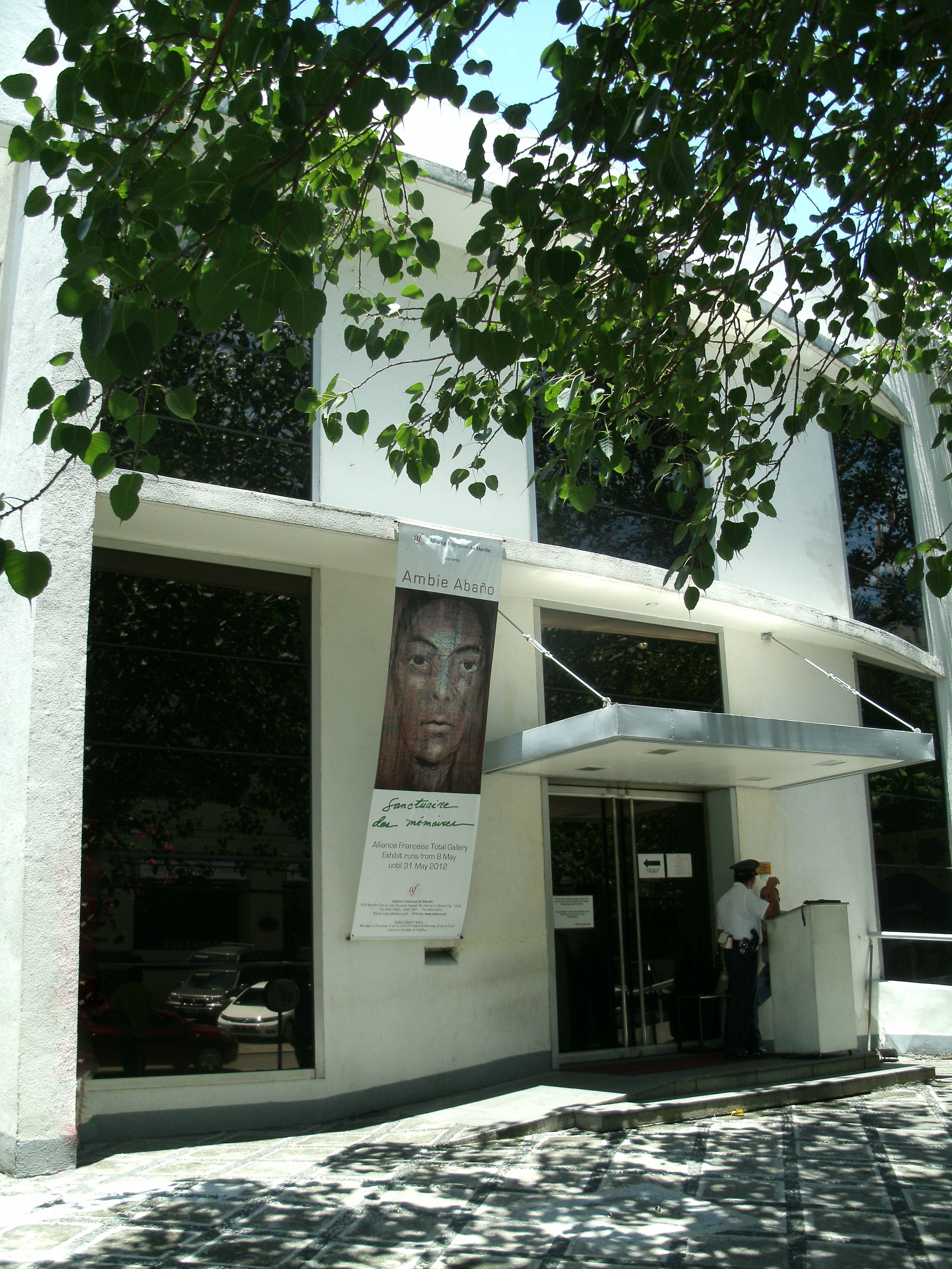 The Building of Alliance Française de Manille in Nicanor Garcia Street (aka Reposo Street), Makati City